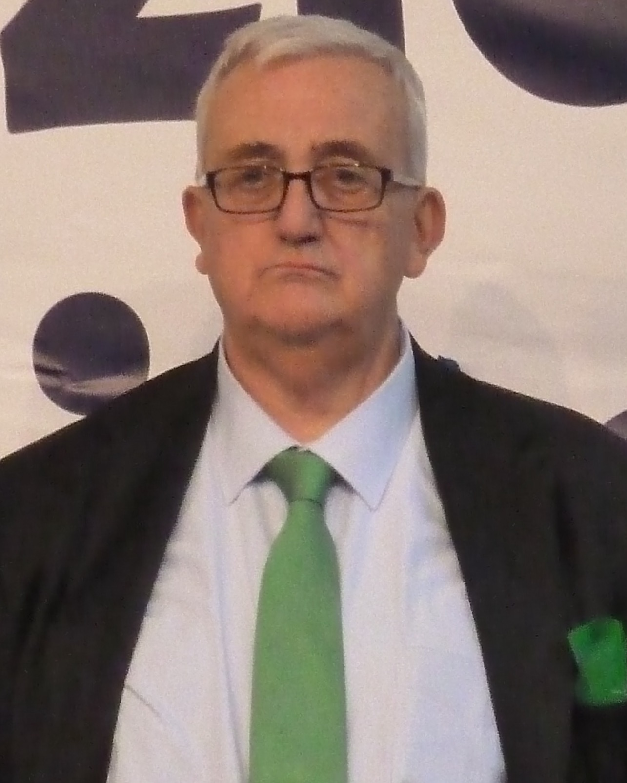 Mario Borghezio